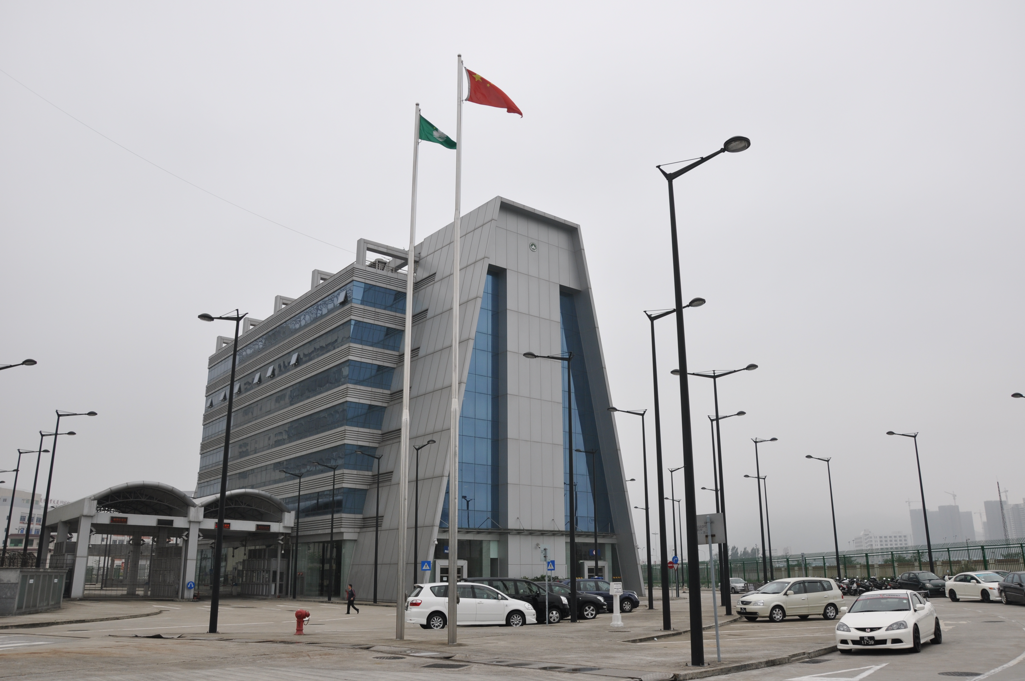 Macao's Port Zhuhai-Macao Cross Boundary Industrial Zone